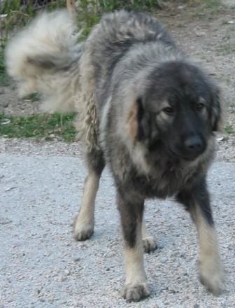 Dog of the Šar Mountains breed , photo taken near Mavrovo, Republic of Macedonia